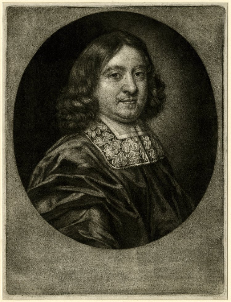 Portrait of John Edgerton, 2nd Earl of Bridgewater, mezzotint, by the Dutch printmaker Abraham Blooteling, after an image by William Claret. 260 mm x 195 mm. Courtesy of the British Museum, London.